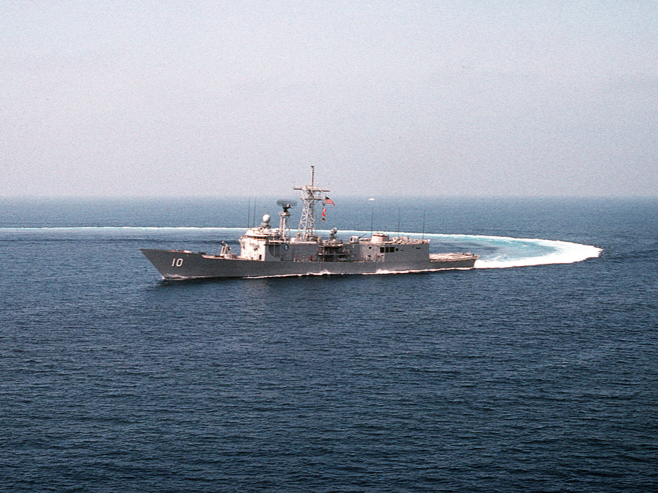 The U.S. Navy guided missile frigate USS Duncan (FFG-10) comes about off San Diego on San Diego, California (USA), on 1 October 1986.